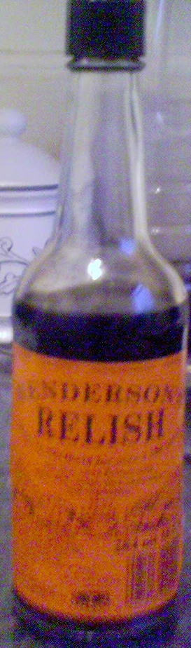 A Bottle of Henderson's Relish